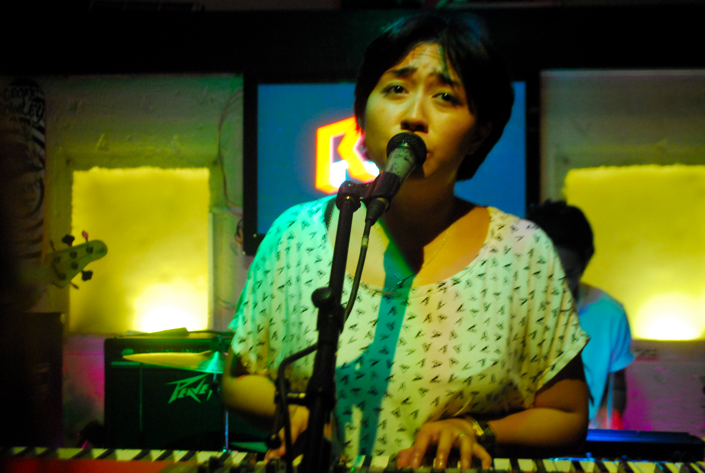 Picture of Armi Millare